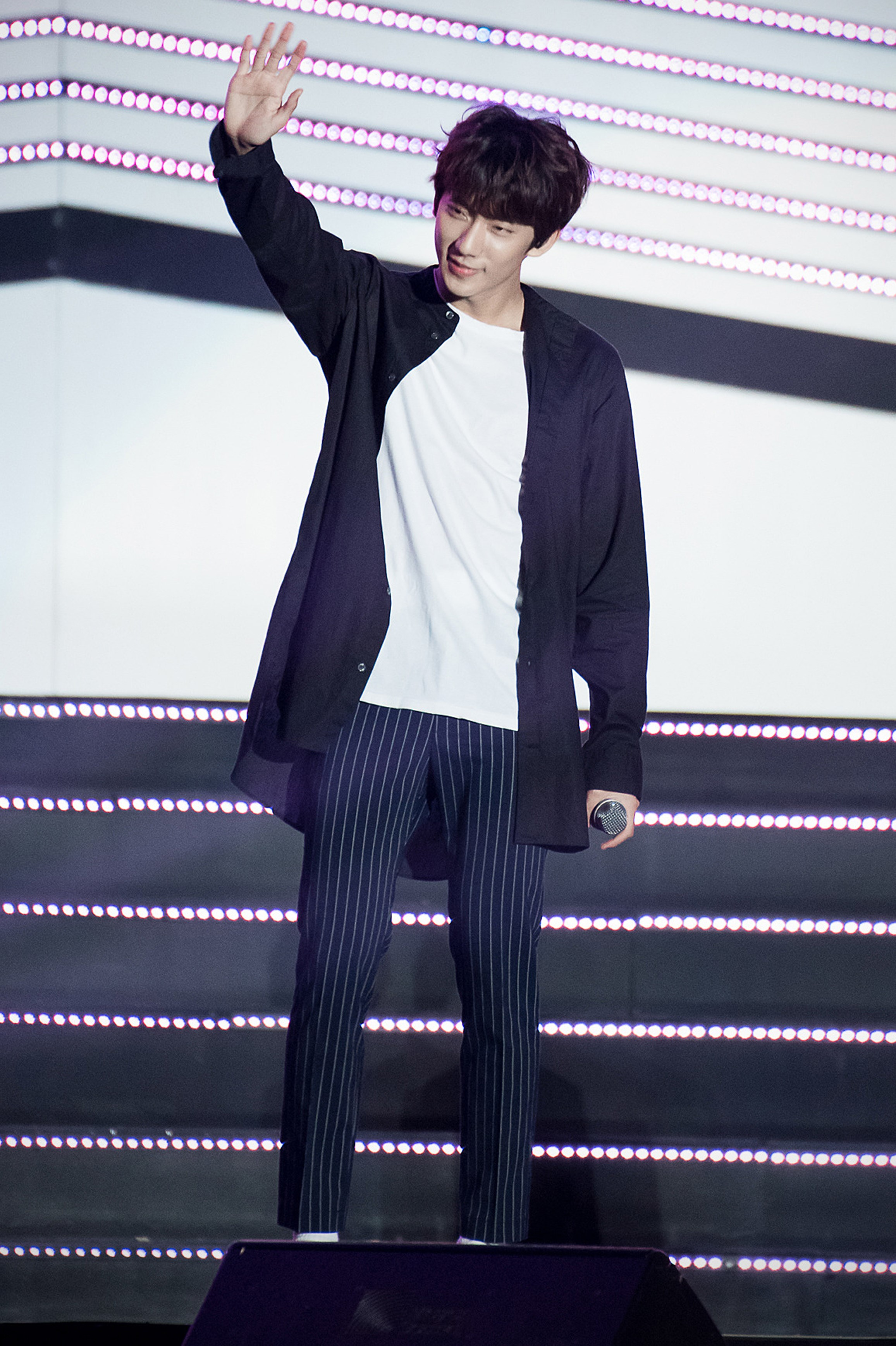 Gongchan at WFMF concert on September 11, 2016.